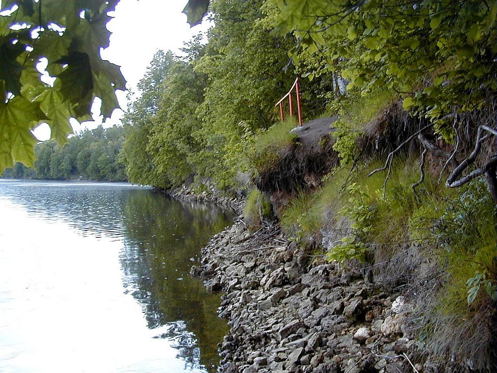 Place of Staburags